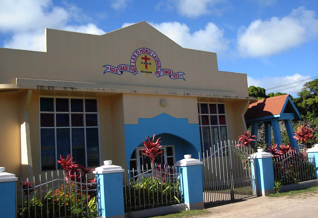 Main church in Nukuʻalofa, Tonga of the Church of Tonga